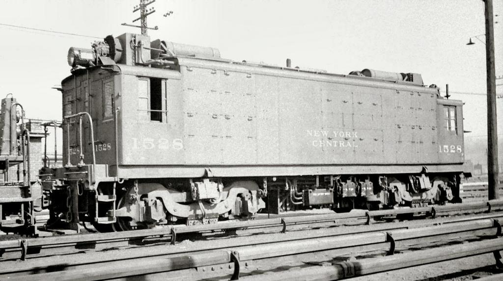 Photo of New York Central three-power boxcab locomotive with road number 1528.